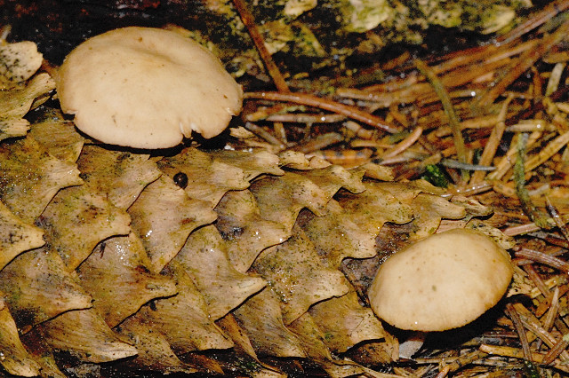 Baeospora myosura from Commanster, Belgium. The determination of the species shown in this picture has been verified.